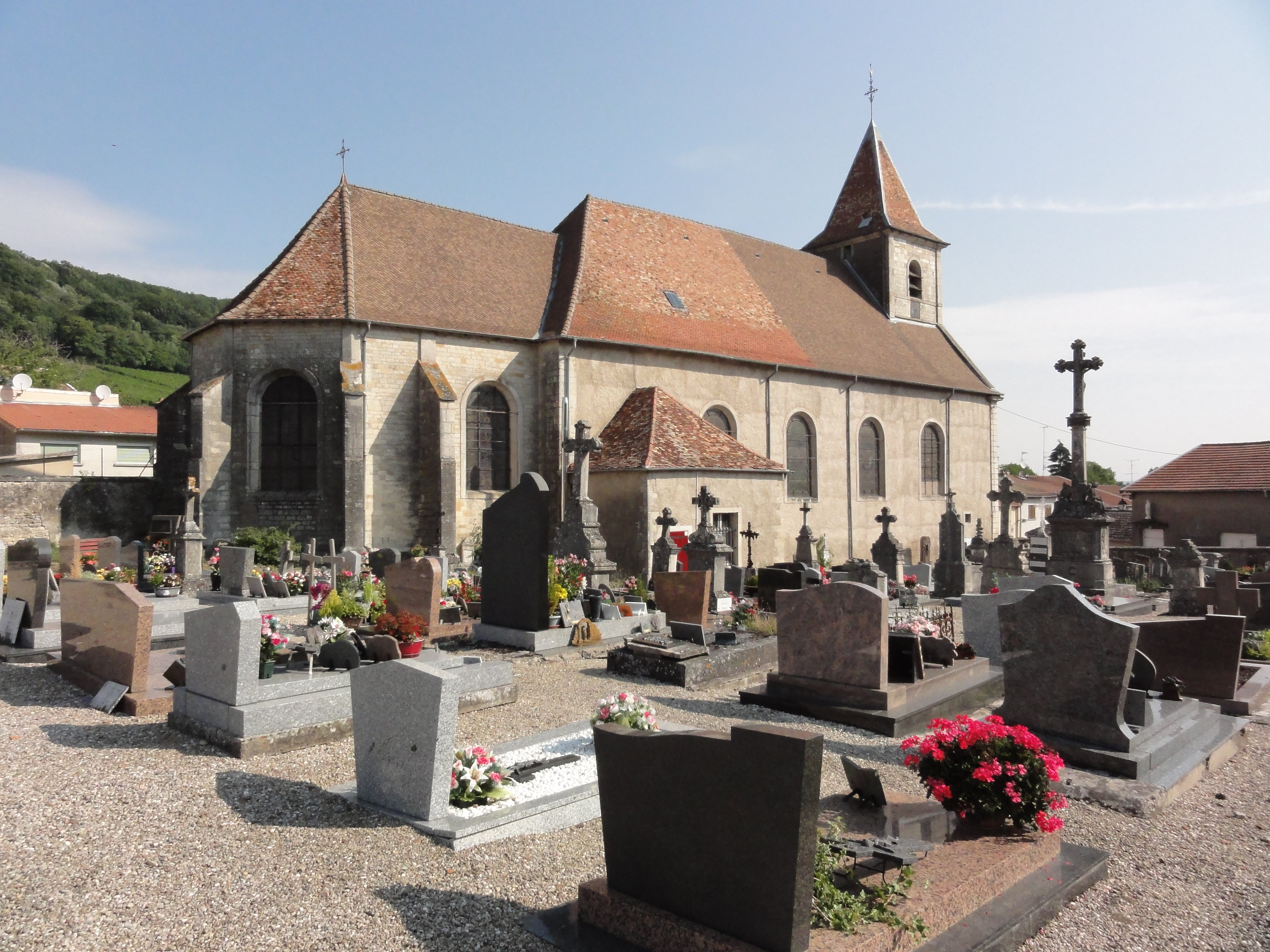 Lucey (Meurthe-et-M.) église et cimetière